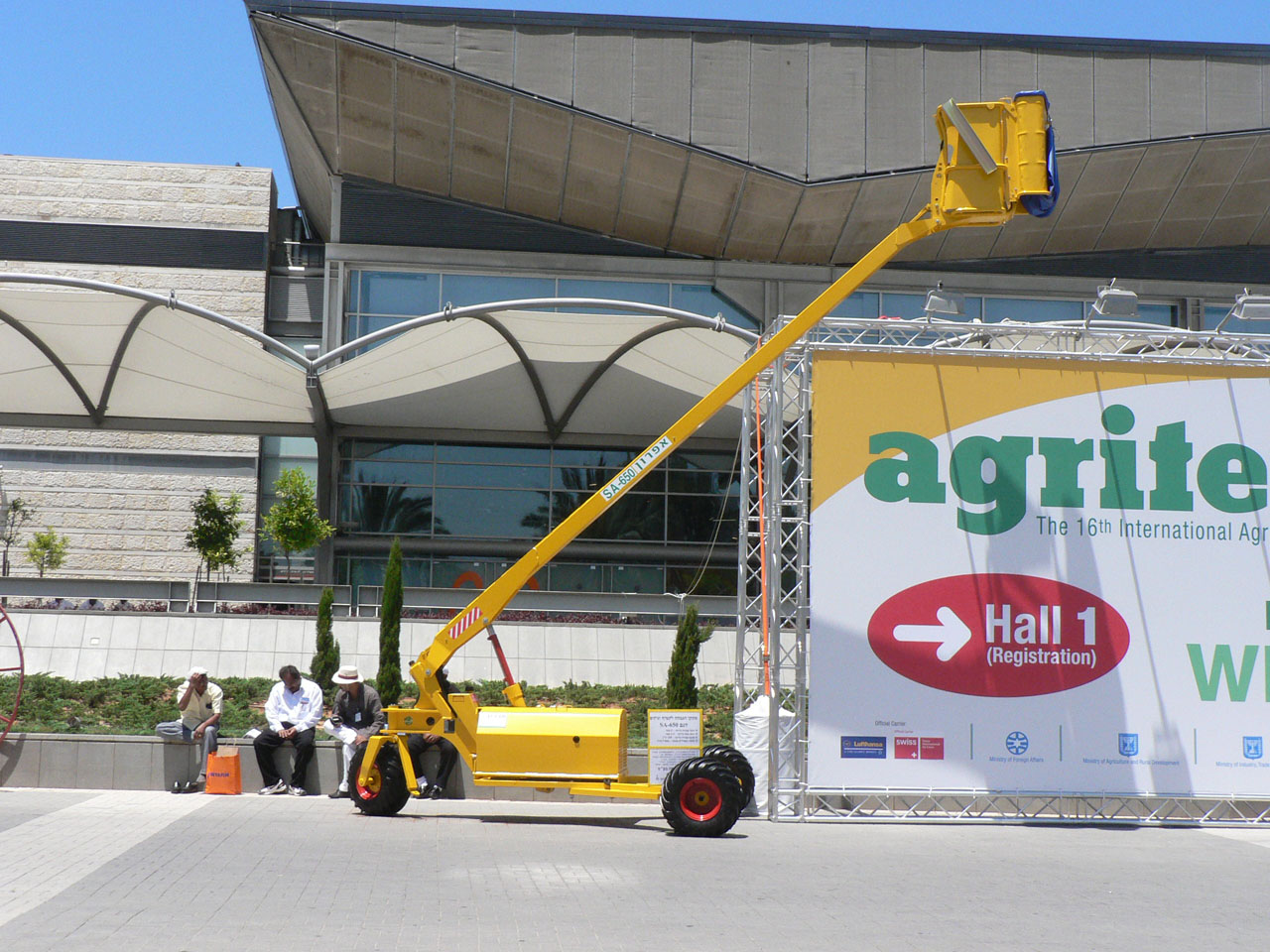 Afron SA650 mobile crane , Agritech 2006, Israel Author: MathKnight